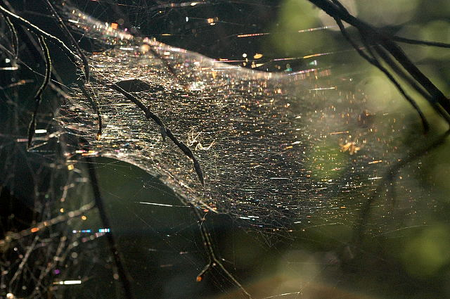 Neriene emphana web, from Commanster, Belgian High Ardennes .